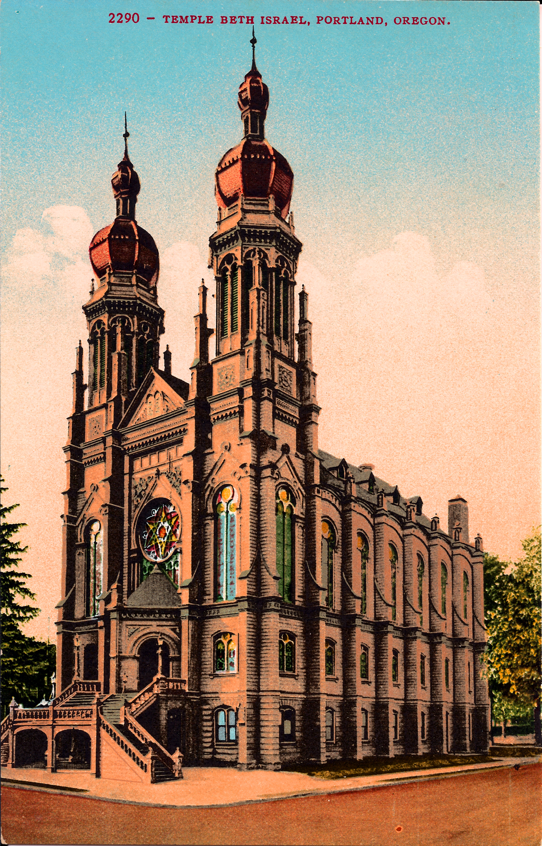 A hand-tinted postcard image of the Temple Beth Israel in Portland, Oregon, from the 1910s. This building, constructed in 1888–89, was a landmark in Portland until it was destroyed in a fire in 1923. The current building of the same name was completed in 1928 to replace this 1889 structure.